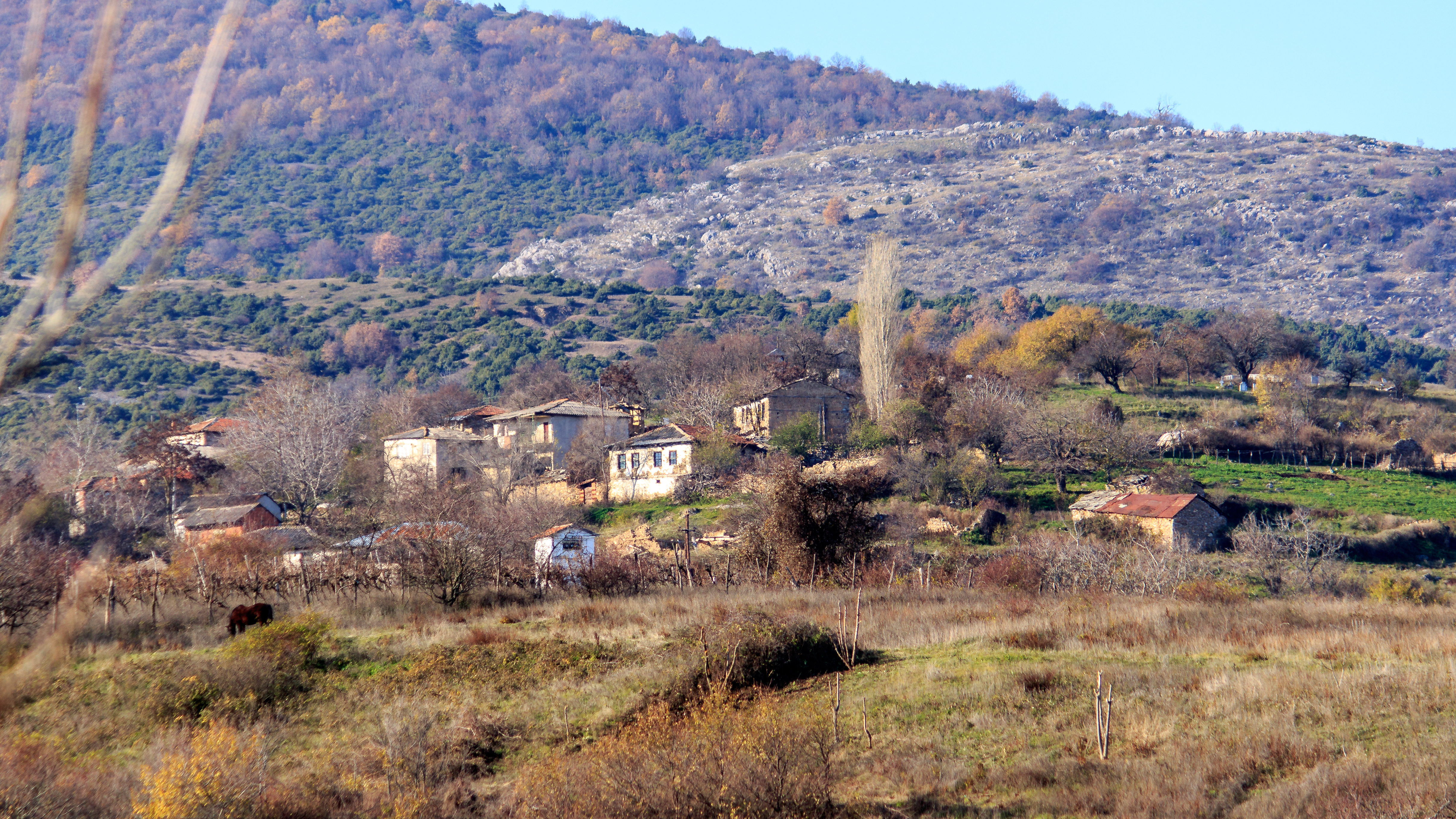 View of one part of the village Podles